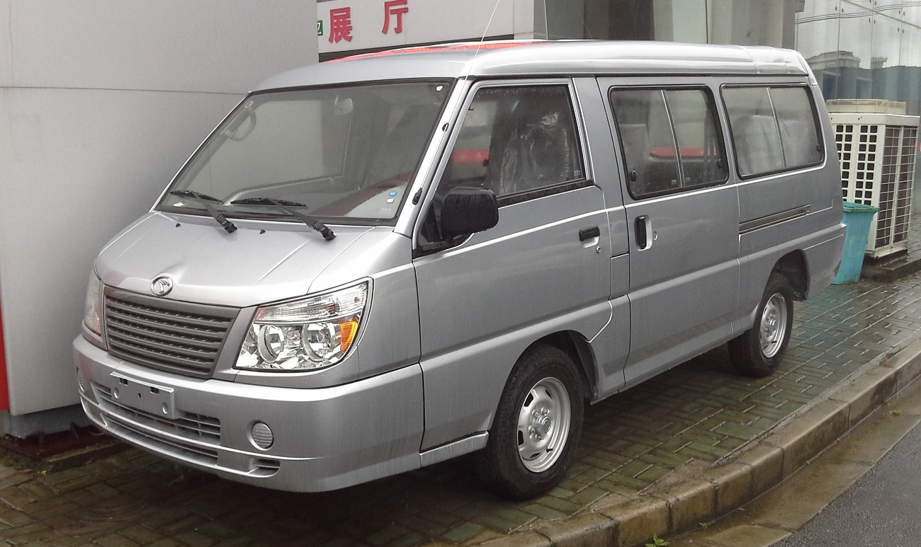 Soueast Delica facelift II photographed in Shanghai, China.